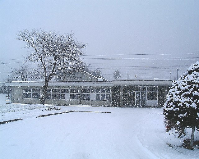 Metoki Station, Aoimori Railway and IGR Iwate Ginga Railway, in Sannohe, Aomori, Japan